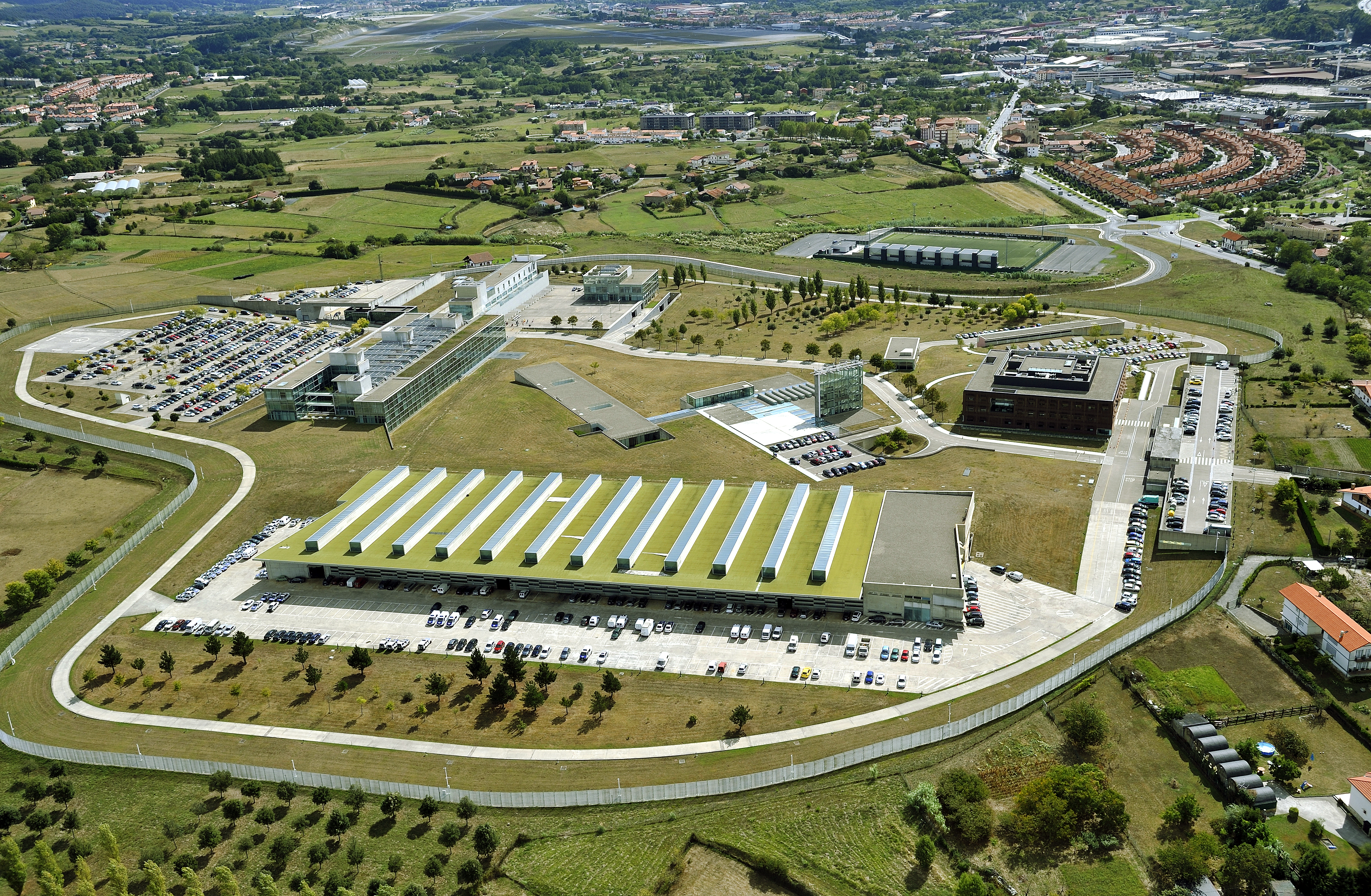 Central de la Ertzaintza de Erandio